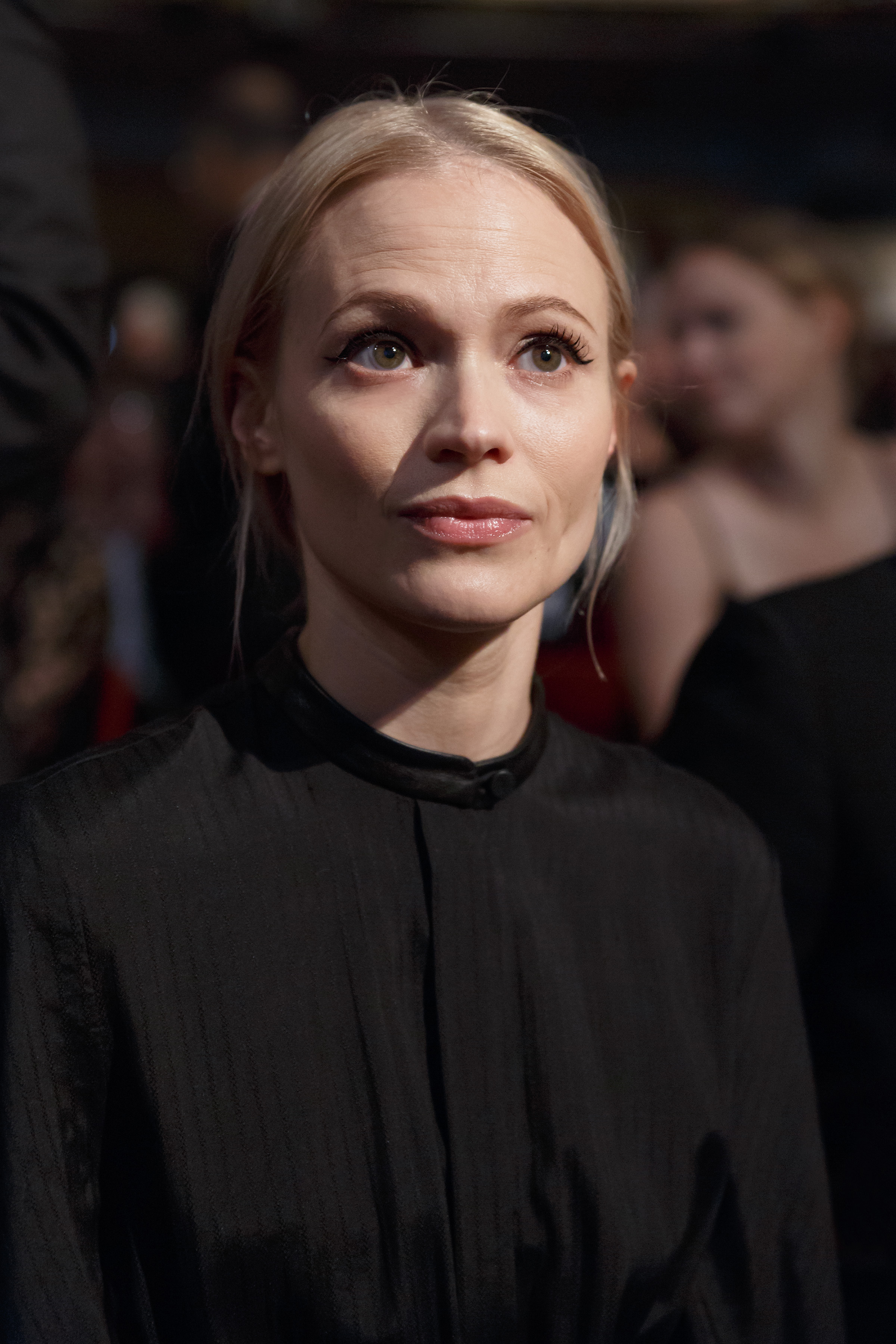 Mavie Hörbiger at the Nestroy Theatre Awards 2016 (Ronacher, Vienna, Austria).